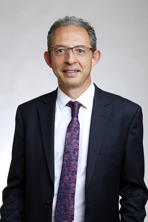 Sophien Kamoun is a Tunisian biologist. He is a senior scientist at the Sainsbury Laboratory and professor of biology at the University of East Anglia. Kamoun is known for contributions to our understanding of plant diseases and plant immunity Attribution: The Royal Society